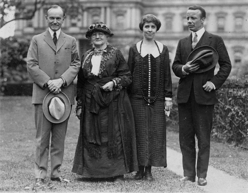 President and Mrs. Coolidge, Mother Jones, and Theodore Roosevelt, Jr., full-length portraits, standing.